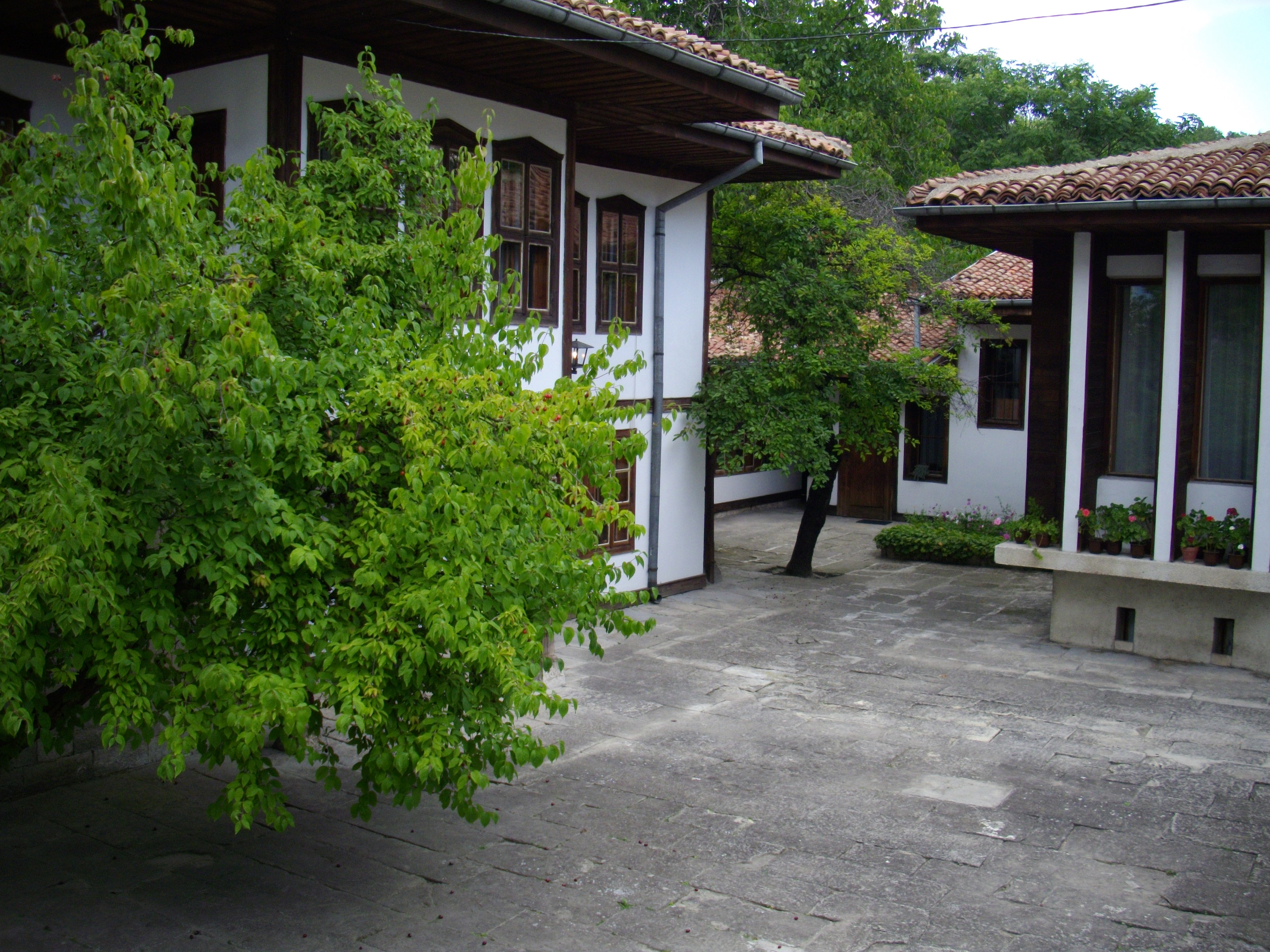 Къща-музей "Панчо Владигеров"